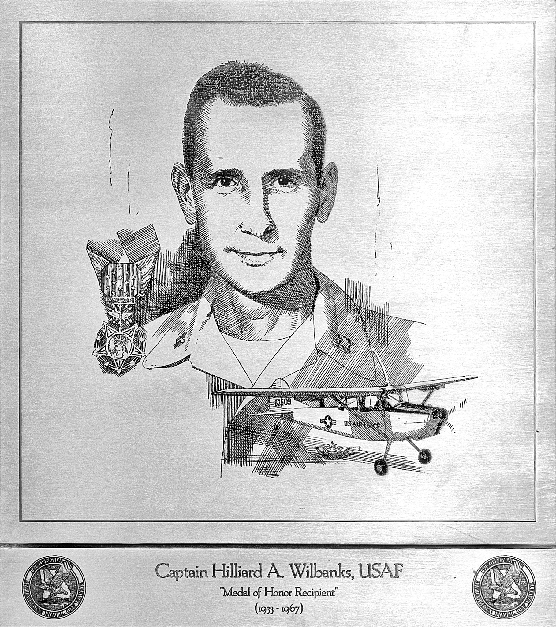 Hilliard A. Wilbanks exhibit at the Georgia Aviation Hall of Fame; located at the Museum of Aviation, Robins Air Force Base